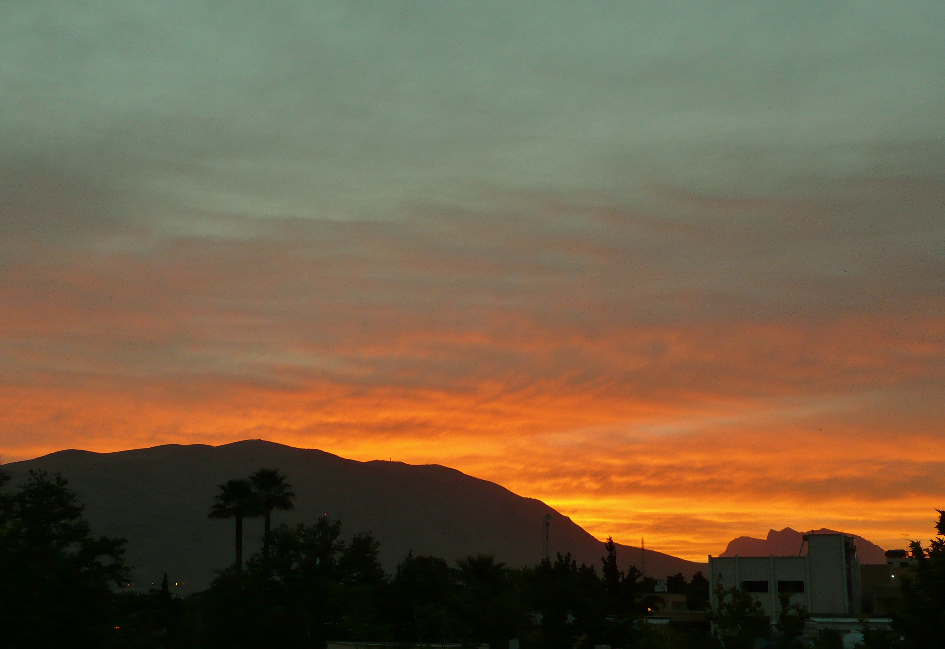 Charming sunset in Shiraz.